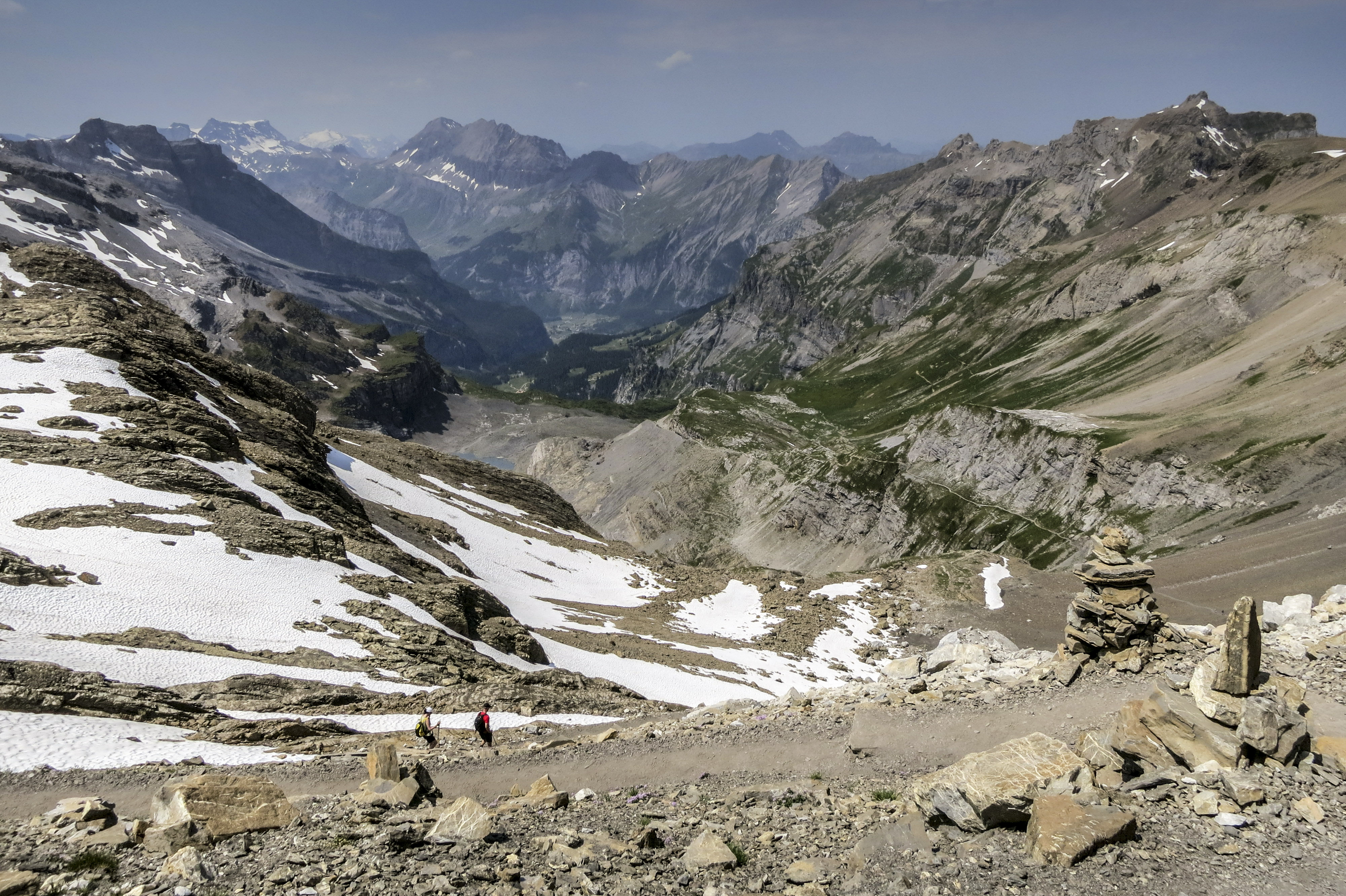 View from the Hohtuerli to the Kandersteg.